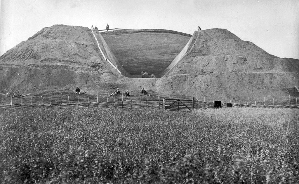 Excavation in 1874 of one of Uppsala Mounds – the Western Mound. A shaft was dug down to the bottom of the mound and a burnt burial site was uncovered. The three burial mounds, dated to ca. 475–550 AD, are also called "the Kings' Mounds".